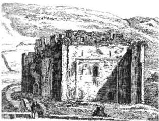 self-photographed from print owned by me John Hamilton (talk) 01:15, 21 June 2015 (UTC) Pendragon Castle ca 1740 self-photographed from an old print "The North-west view of Pendragon-Castle in the County of Westmorland", published by Samuel & Nathaniel Buck in 1739 and owned by me. John Hamilton (talk) 16:24, 21 June 2015 (UTC)